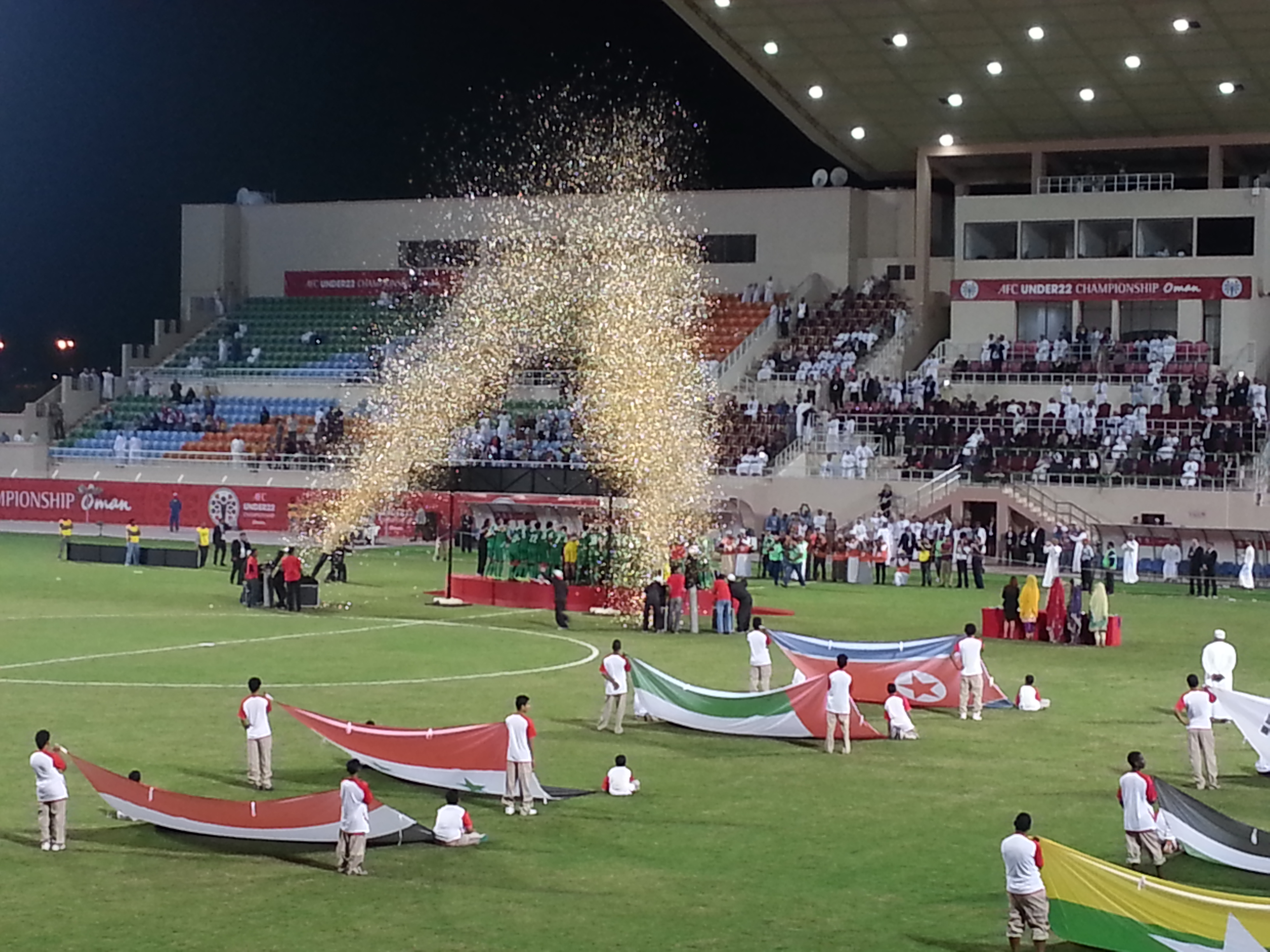 بطولة للنشائين